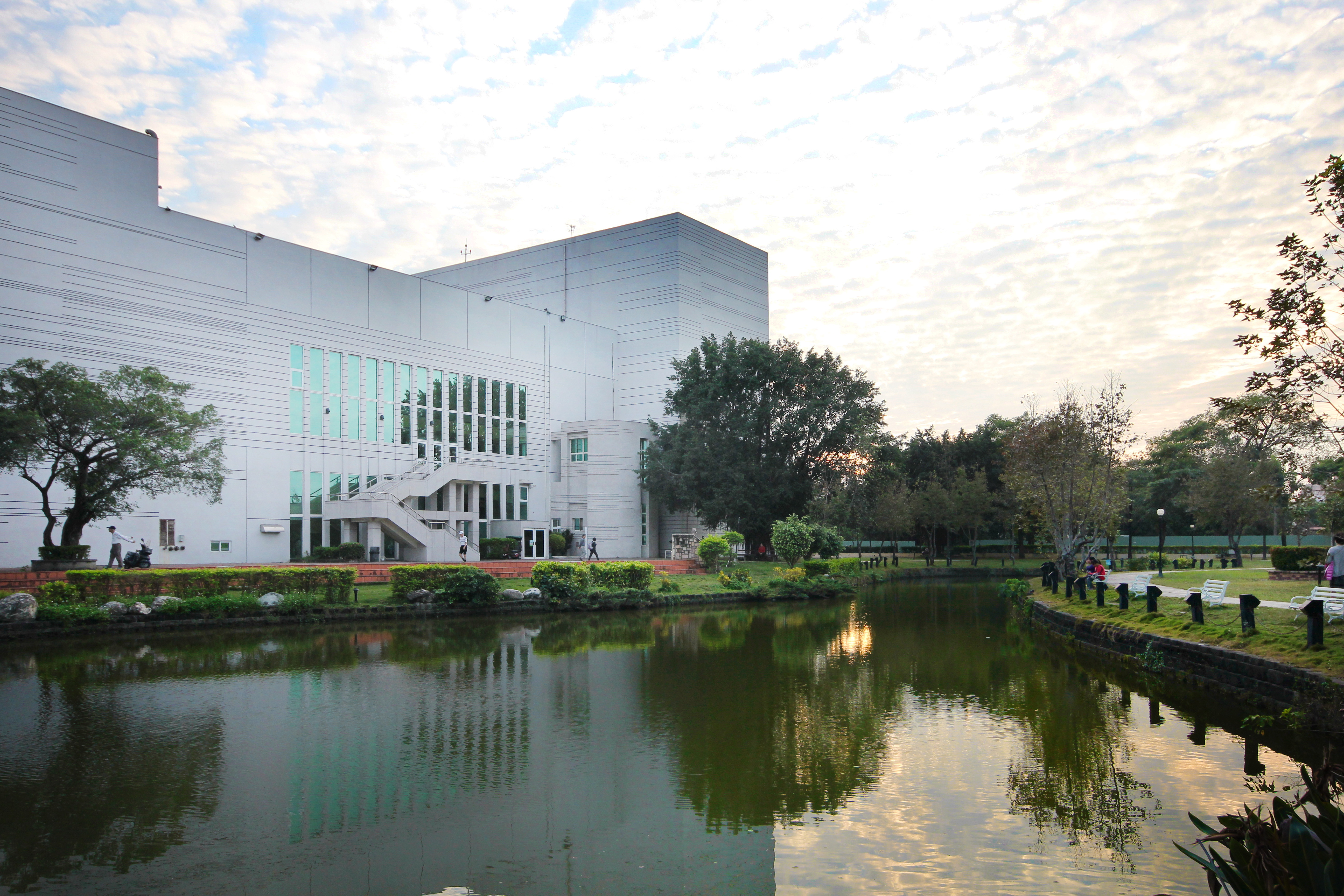 Fir Pond located north of the Chiayi City Cultural Center, Taiwan.